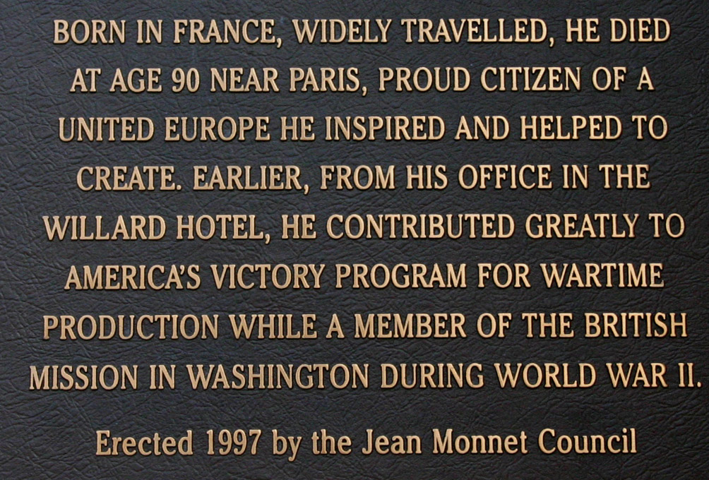 Jean Omer Marie Gabriel Monnet (November 9, 1888 - March 16, 1979) is regarded by many as the architect of European Unity. Never elected to public office, Monnet worked behind the scenes of American and European governments as a well-connected pragmatic internationalist.